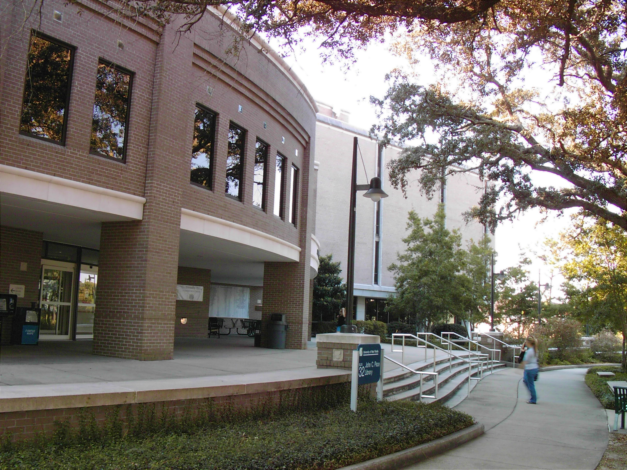 Picture of UWF library